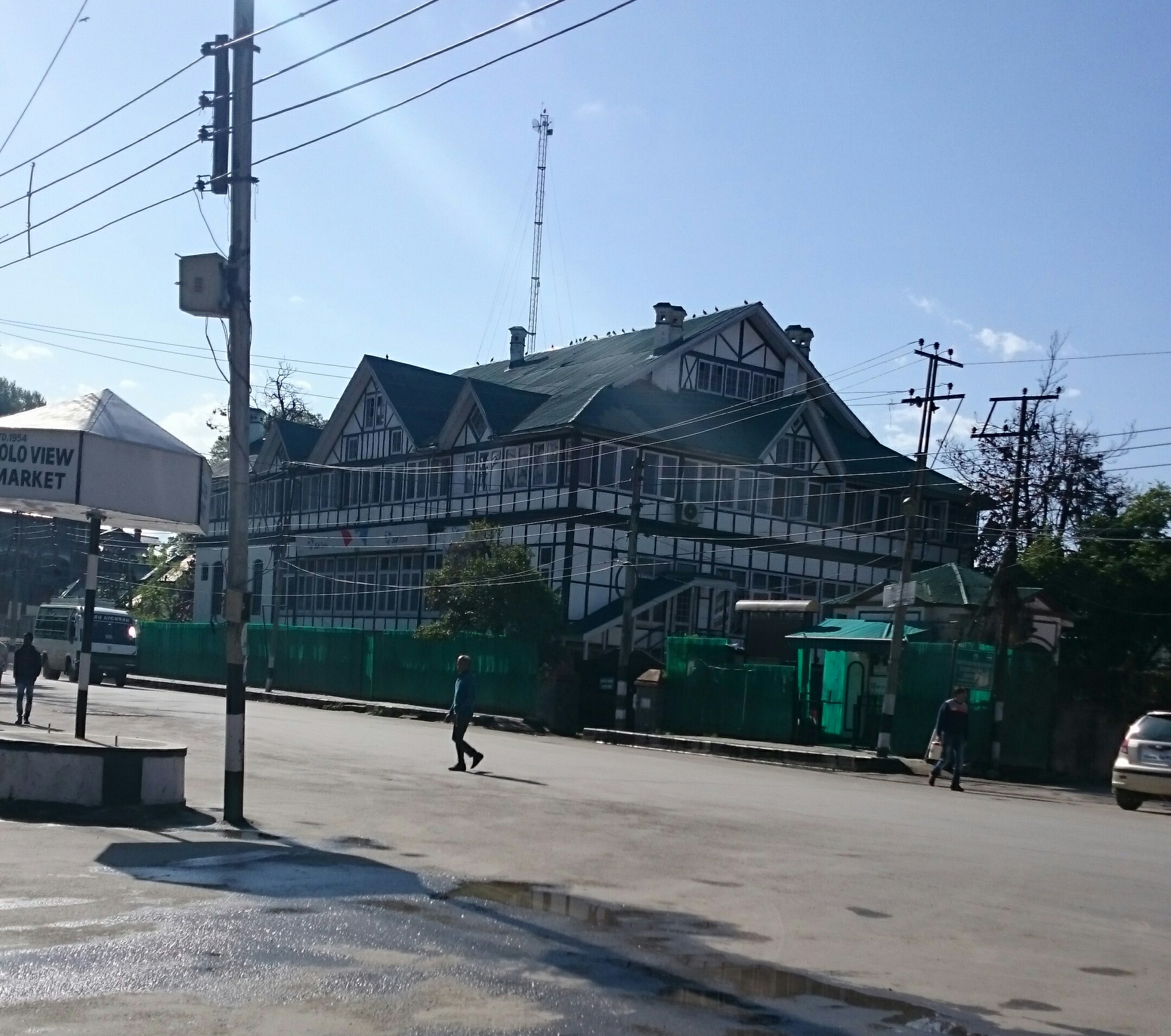 A timbered structure at Residency Road.